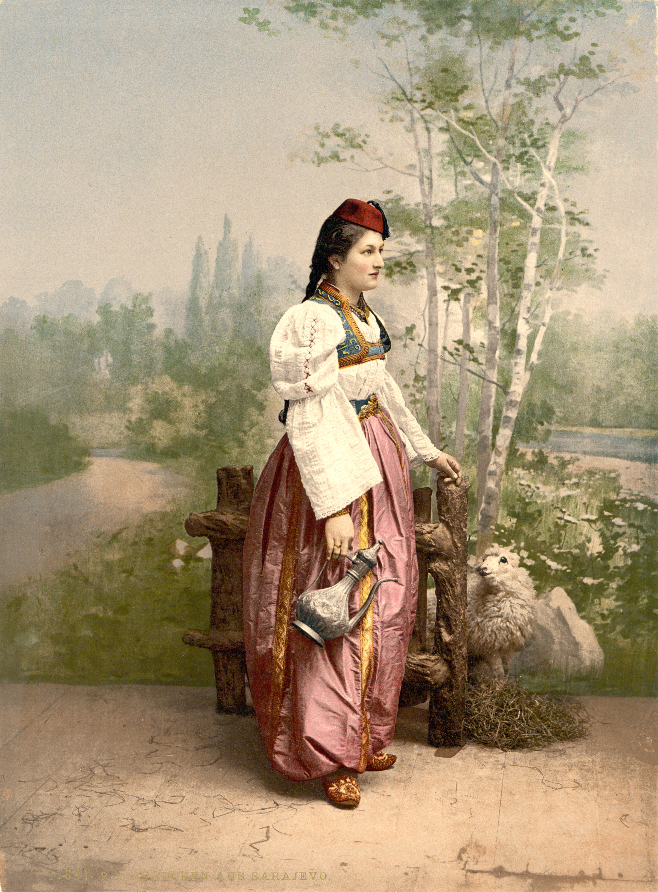 Girl of Sarajevo Bosnia Austro-Hungary